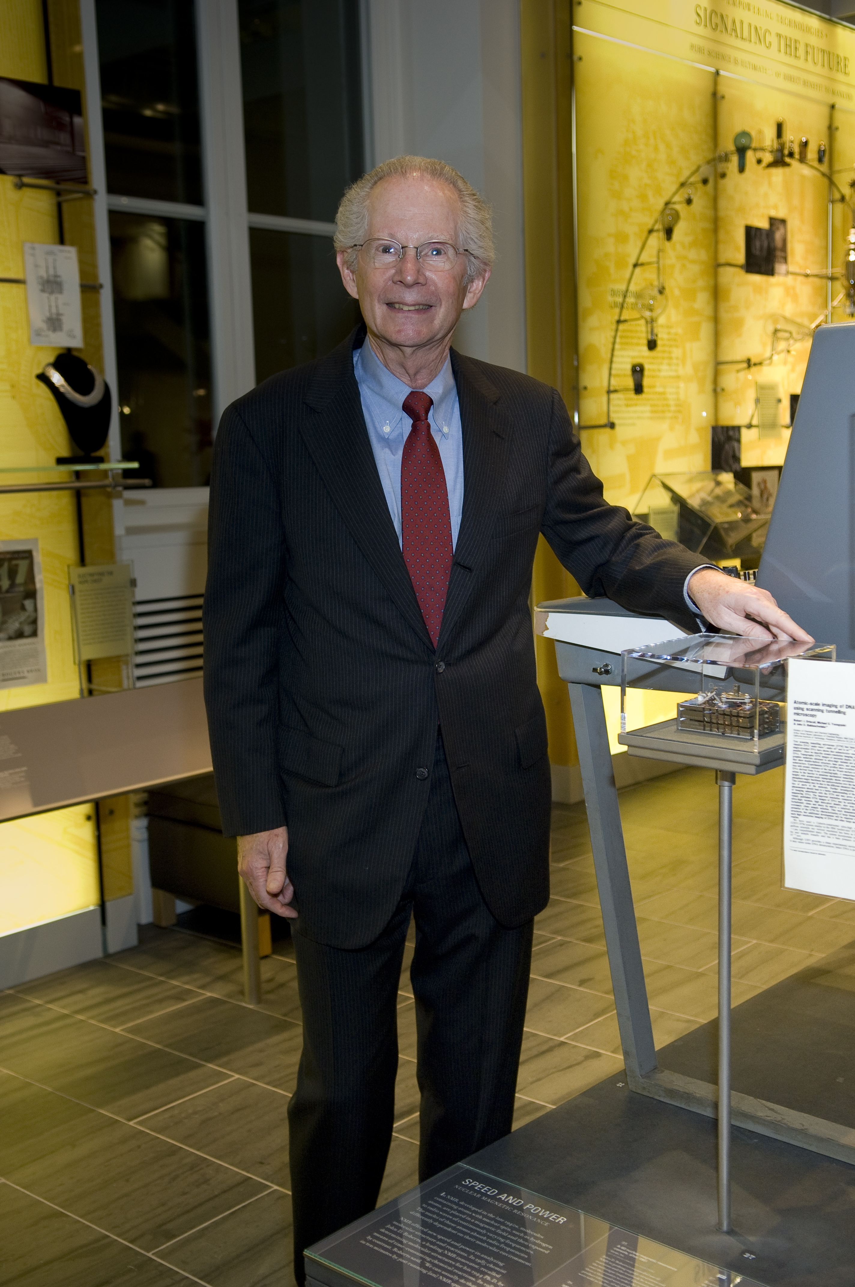 Photograph of John D. Baldeschwieler, 7 November 2008, at the Chemical Heritage Foundation's Grand Gala.